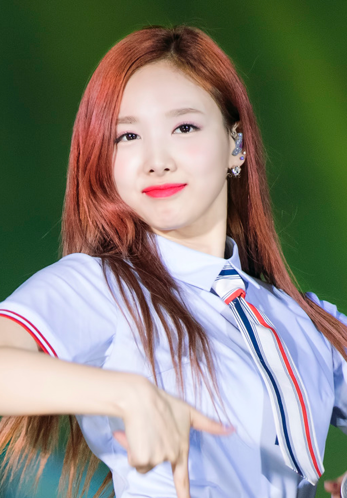 Im Na-yeon at Lotte Family Concert on May 20, 2017